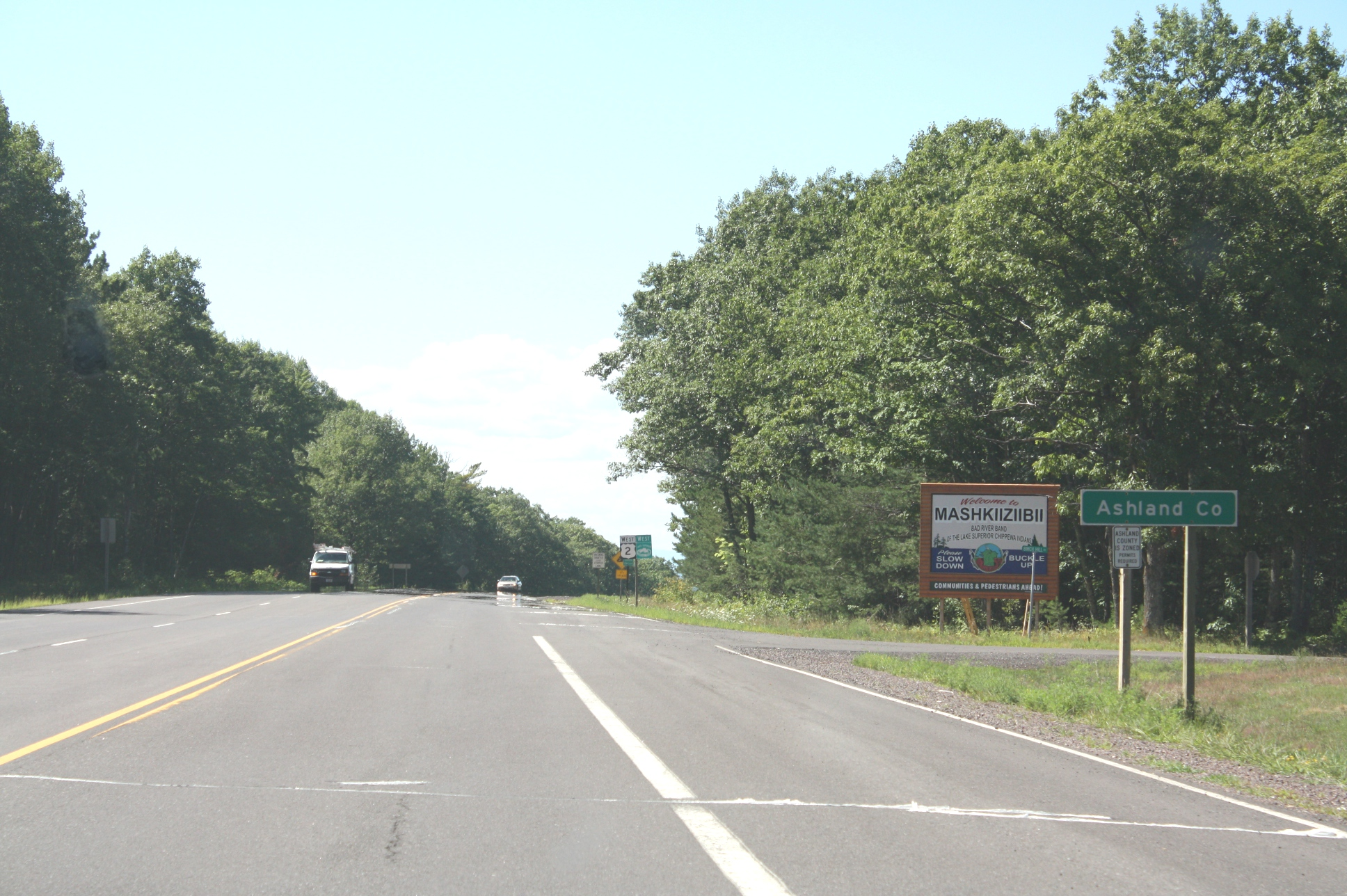 The sign for Ashland County, Wisconsin on U.S. Route 2. It also marks the Bad River Indian Reservation and the sign for the Lake Superior Circle Tour is visible farther in the background.